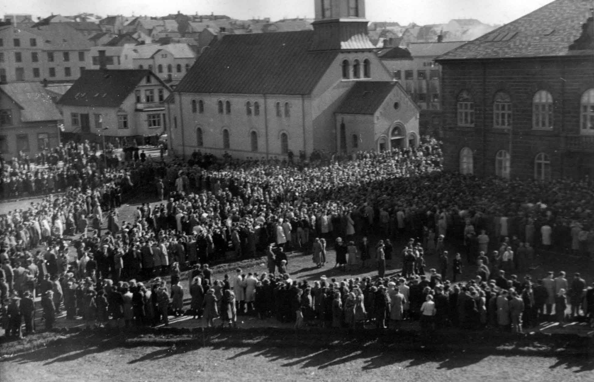 From the day of the Anti-NATO protests in Reykjavík. Overview over Austurvöllur, Reykjavik Cathedral and the House of the Althing, March 30th 1949.